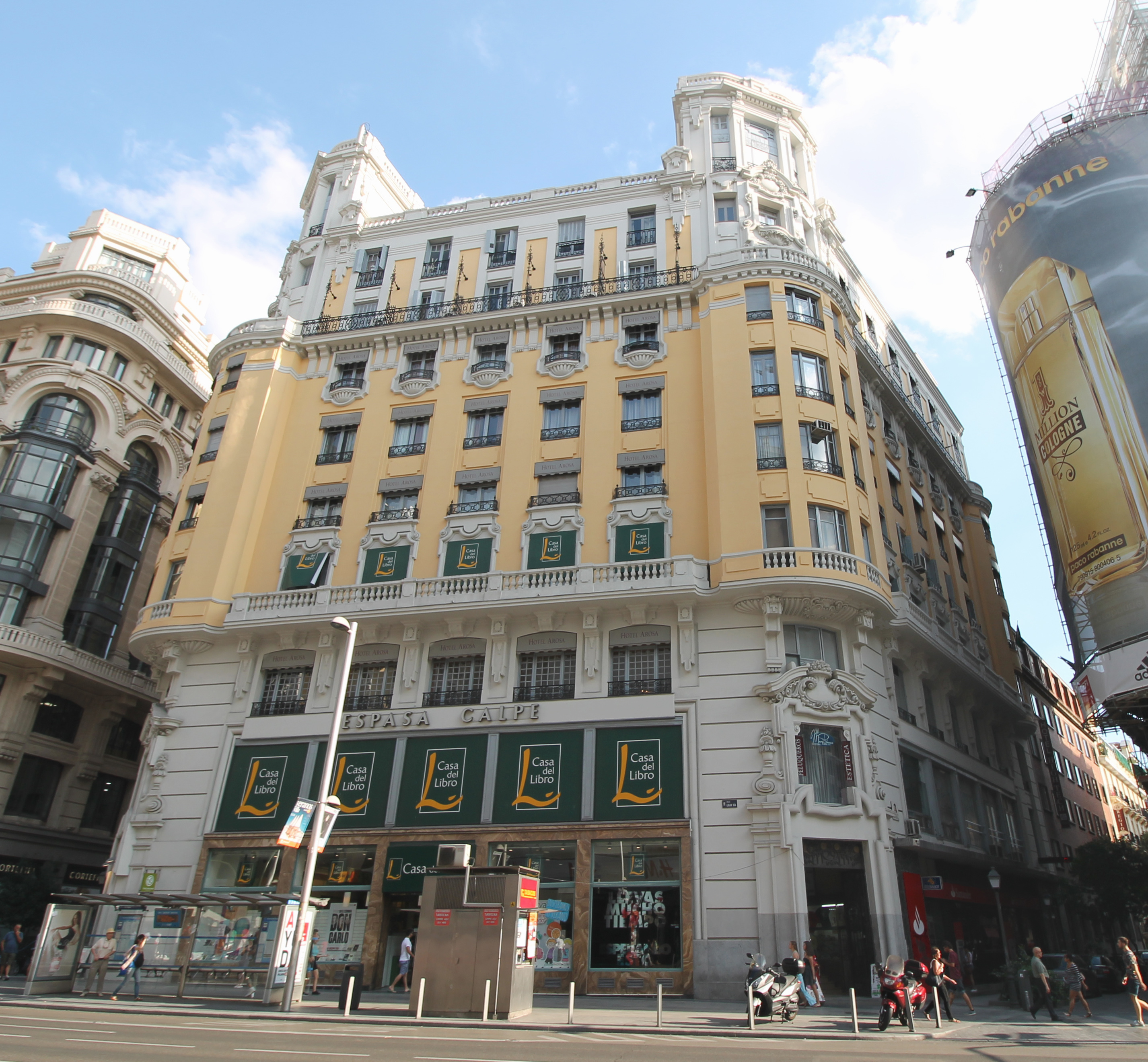 Façade of Casa del Libro (a bookshop) at 29 Gran Vía (avenue) in Madrid (Spain).